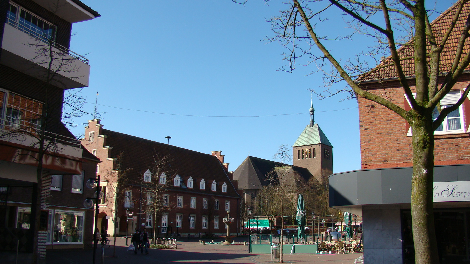 Marketsquare Vreden with former cityhall.